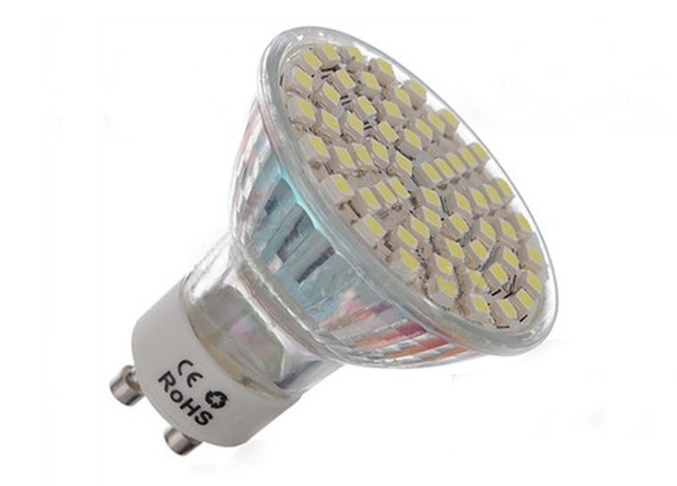 60 LED 3W Spot Light equivalent to 25W halogen